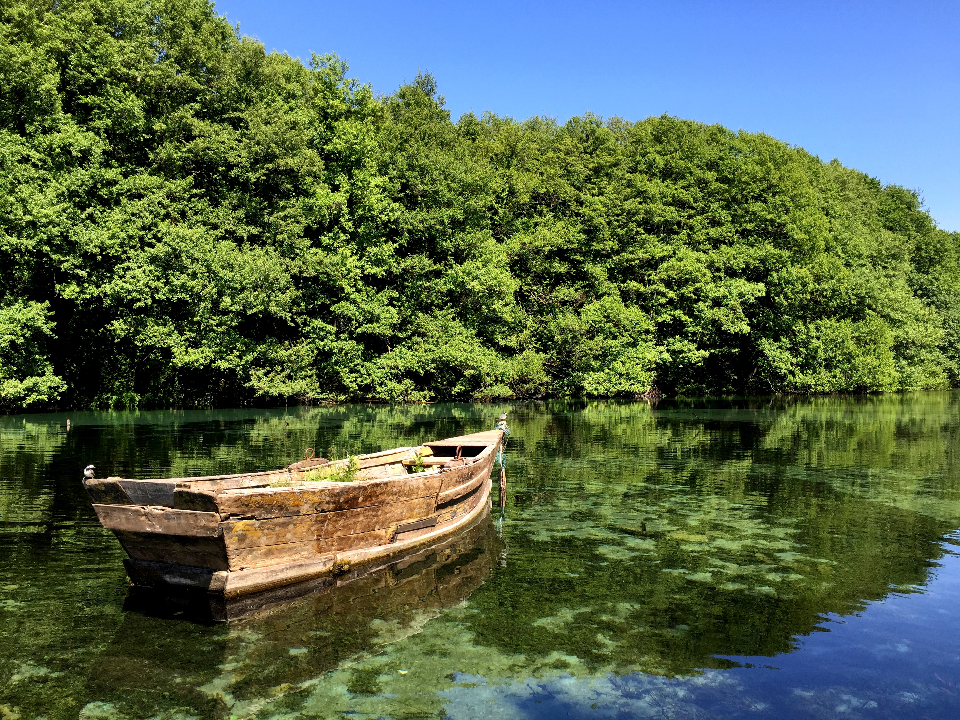 Skiff at the springs of Black Drim, Macedonia